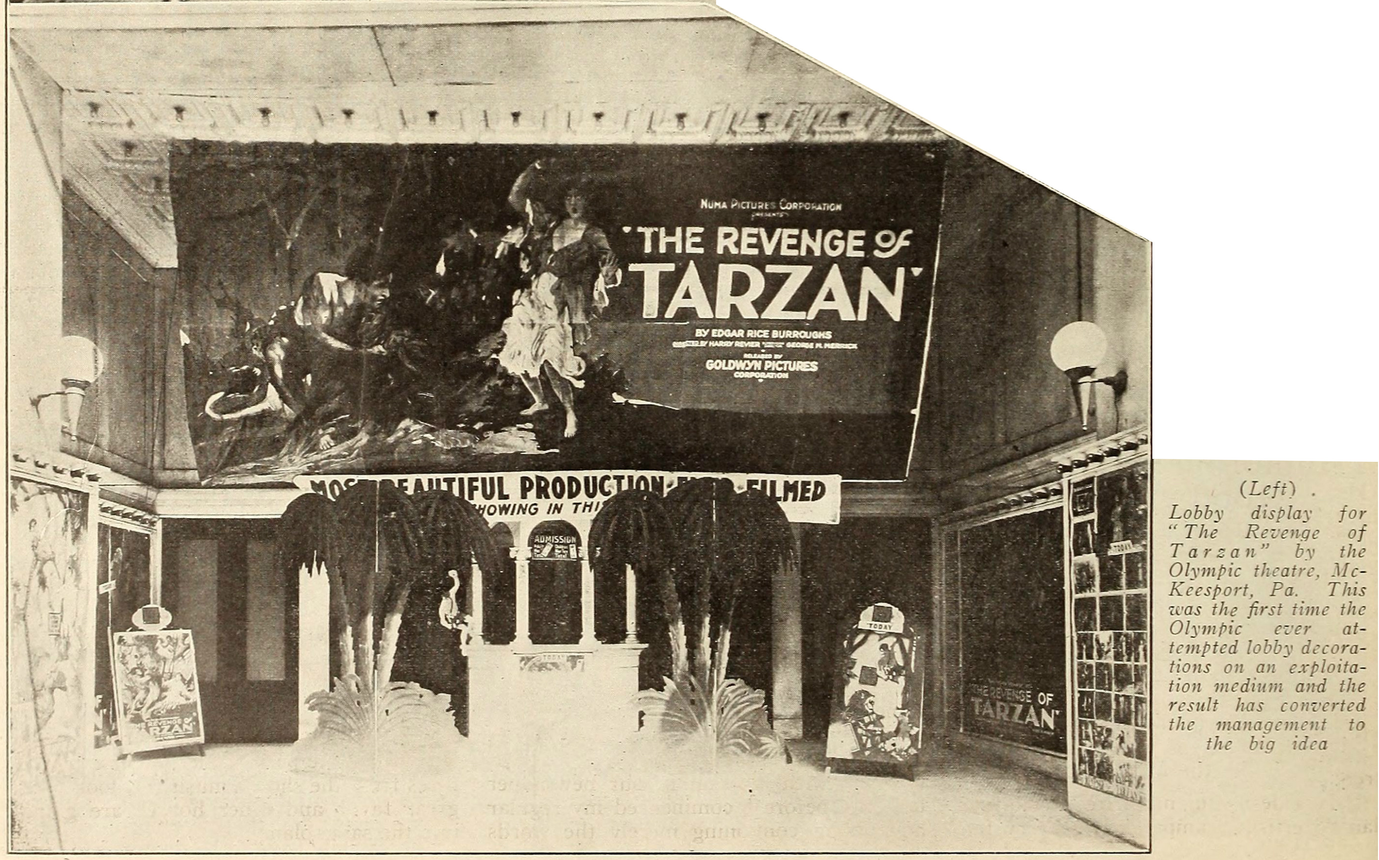 The Olympia Theatre in McKeesport, Pennsylvania, decorated to advertise The Revenge of Tarzan in 1920